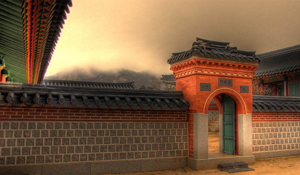 Thanks to the author Mendhak for using the Creative Commons Attribution-ShareAlike 2.0 license. The only changes are a slight clockwise rotation and a crop to 1024x600. Description from the original: "HDR attempt in the rain. If you zoom in to where the chromatic aberrations are, you'll see some rain drops on the lens! Because it was raining and cloudy all the time, I had to do a lot more HDR than usual to get the colors and tones of the places out. Korean architecture is quite visually appealing so a normal, washed out photo wouldn't do."